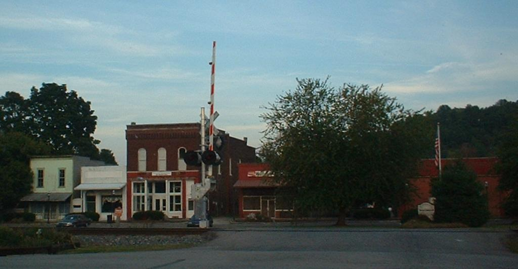 Downtown Normandy, Tennessee, along the Dixie Highway.